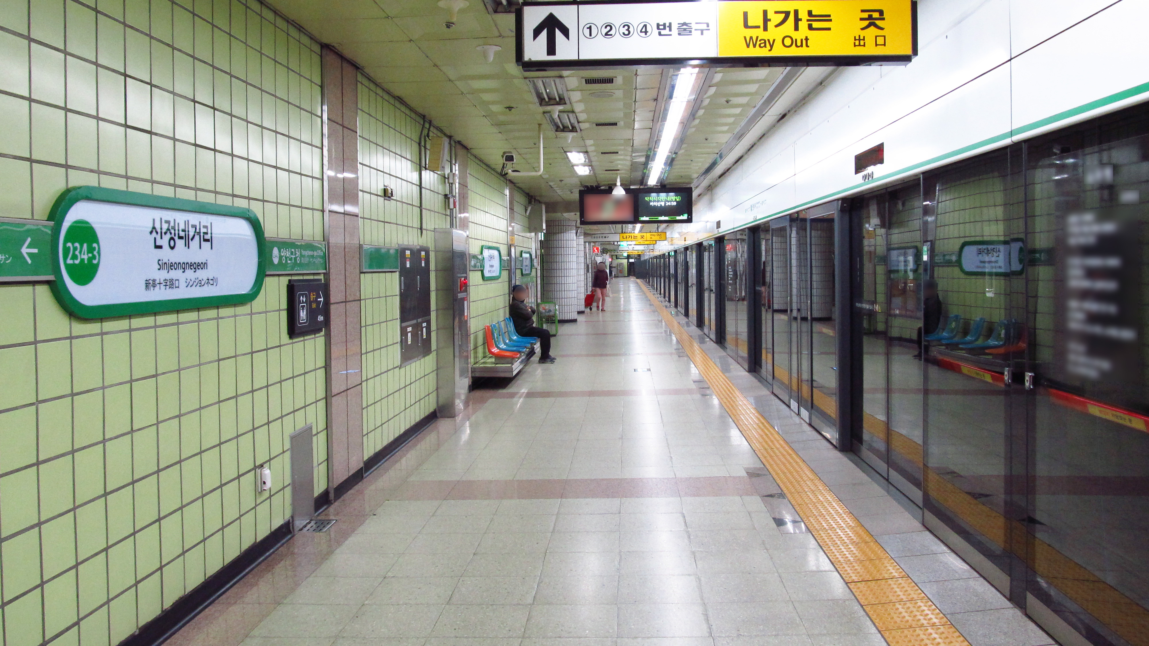 The platform at Sinjeongnegeori Station on Seoul Subway Line 2 in Yangcheon-gu, Seoul, Republic of Korea(South Korea)